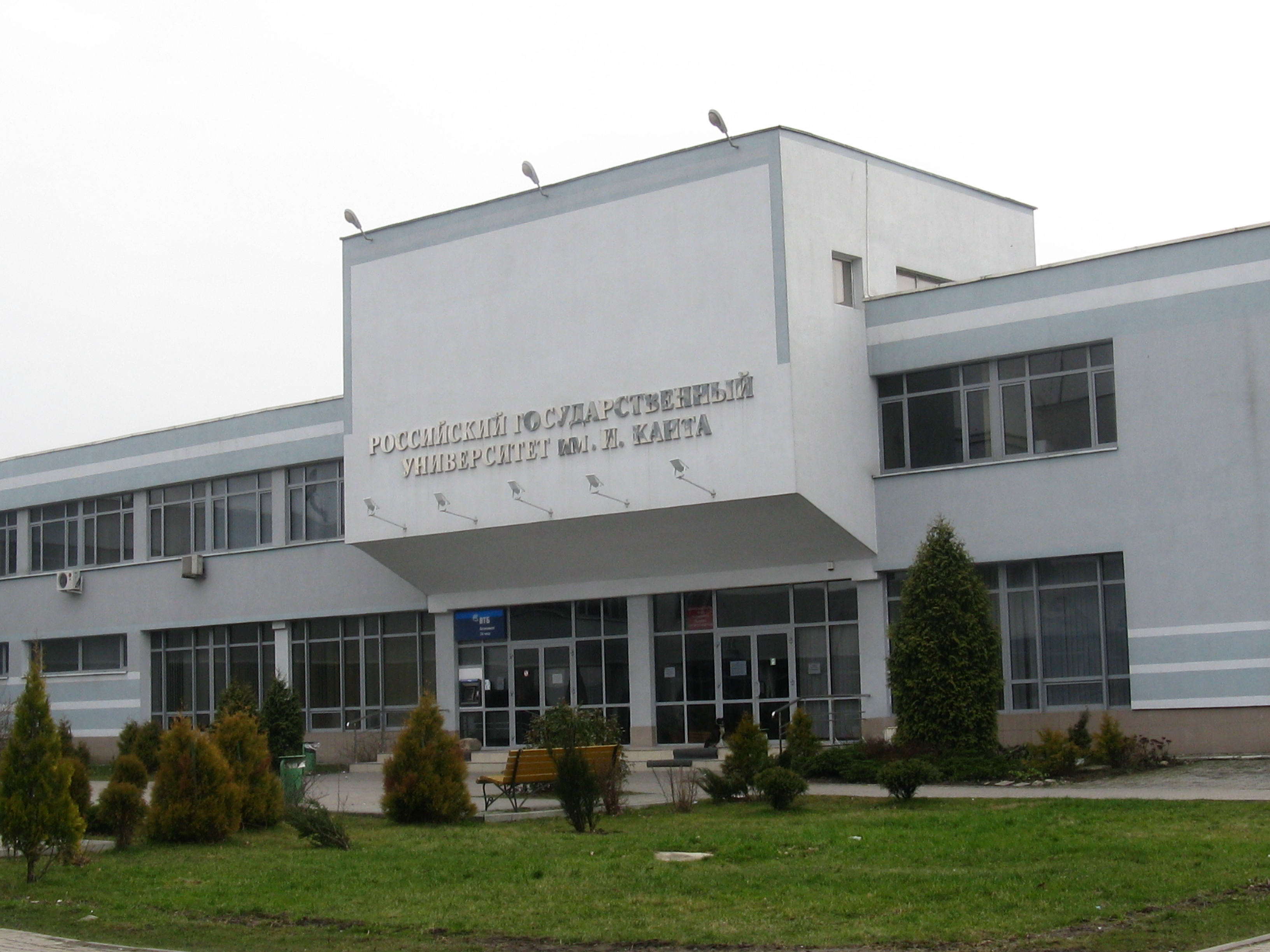 Immanuel Kant State University of Russia. Administration building.